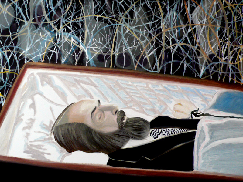 Soljenitsyne: a XXth century paradox by Valéry Grancher (Oil on canvas 61*46 cm)